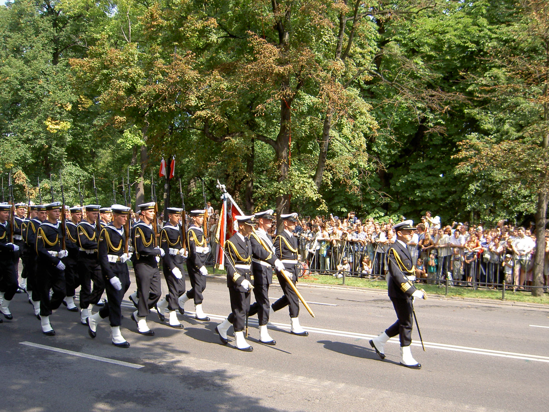 Guard of honor of the Polish Navy.